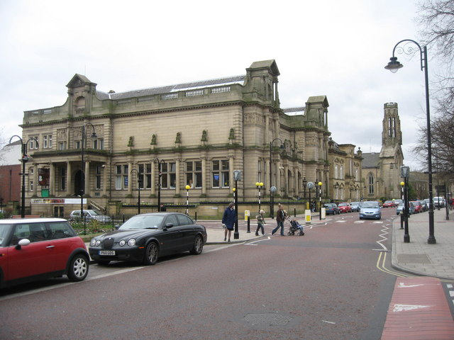 Bury Art Gallery, Library and Museum These magnificent buildings on Manchester Road house the Central Library, Art Gallery and local history Museum. Bury Council has been in the news recently because it sold at auction a LS Lowry painting for £1.4m from the town’s own collection to help make up for the council’s budget deficit. Bury Art Gallery could now face future funding difficulties because of the sale.